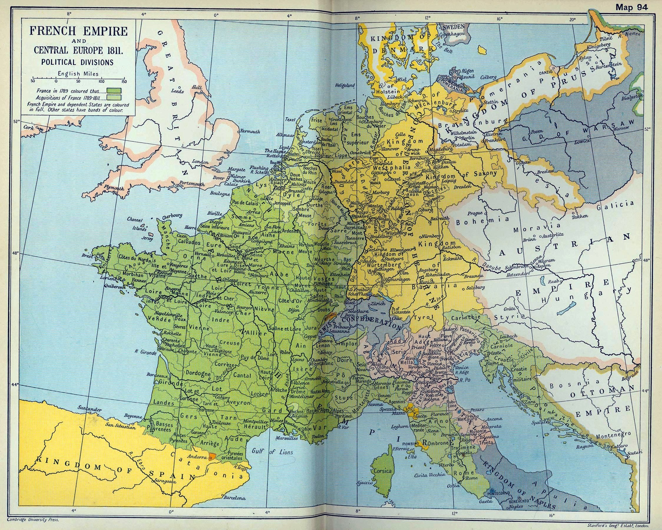 French Empire and Central Europe in 1811 (Political Divisions).